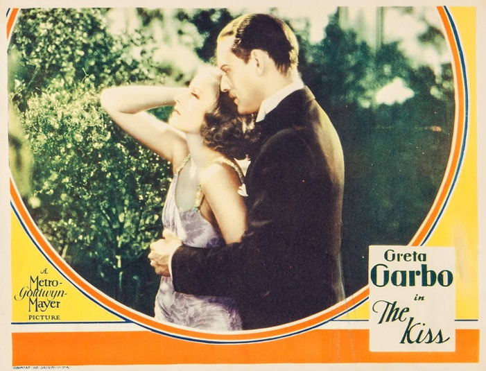 Lobby card for the American silent drama film The Kiss (1929).